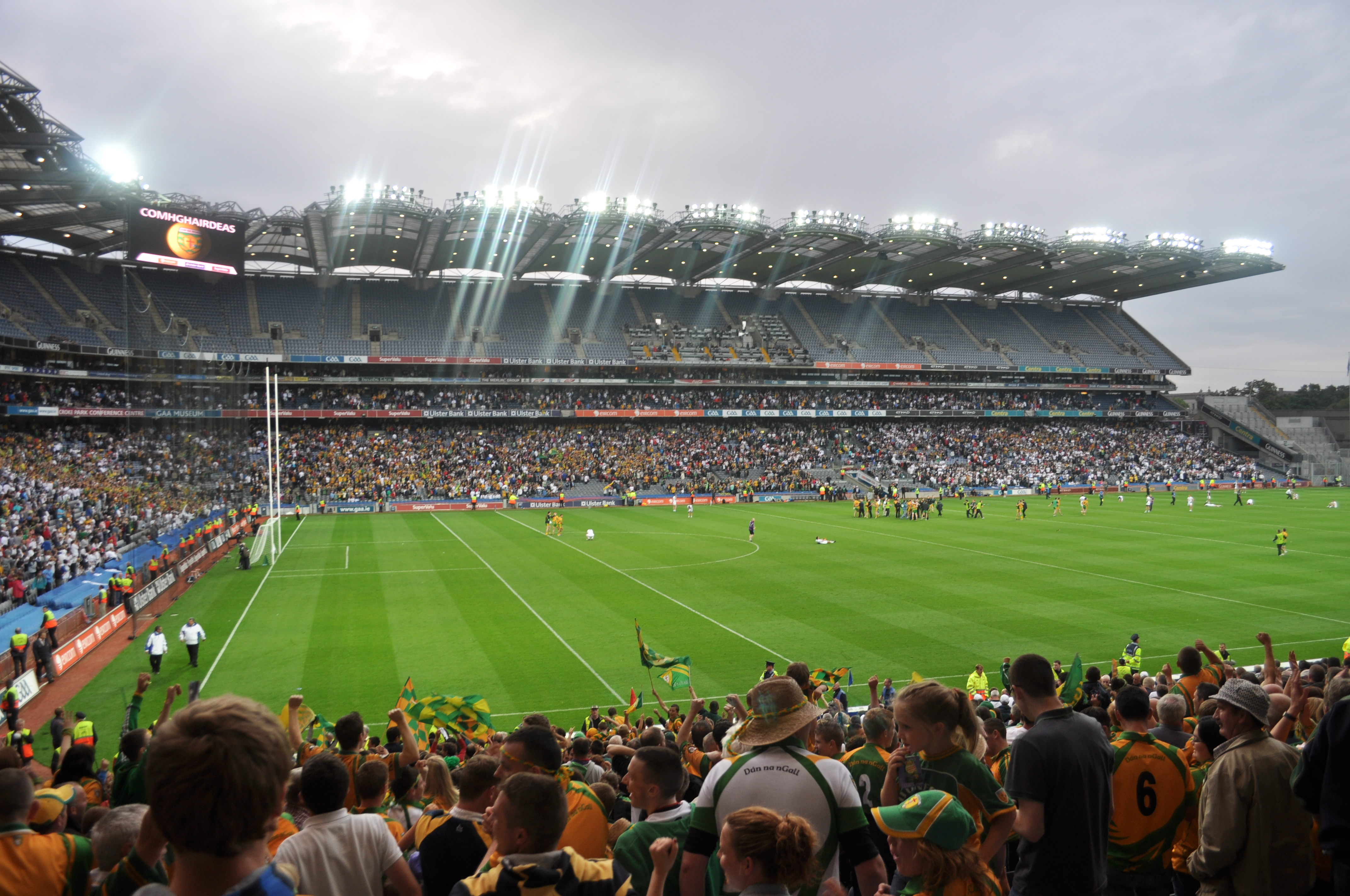 Donegal beat Kildare with the last kick of the game in the 2011 All-Ireland Senior Football Championship Quarter Final at Croke Park. They would narrowly lose to eventual Champions Dublin in the 2011 Semi Final. However, Donegal returned stronger the following year, and lifted the Sam Maguire Cup after victory in the 2012 All-Ireland Senior Football Championship Final.